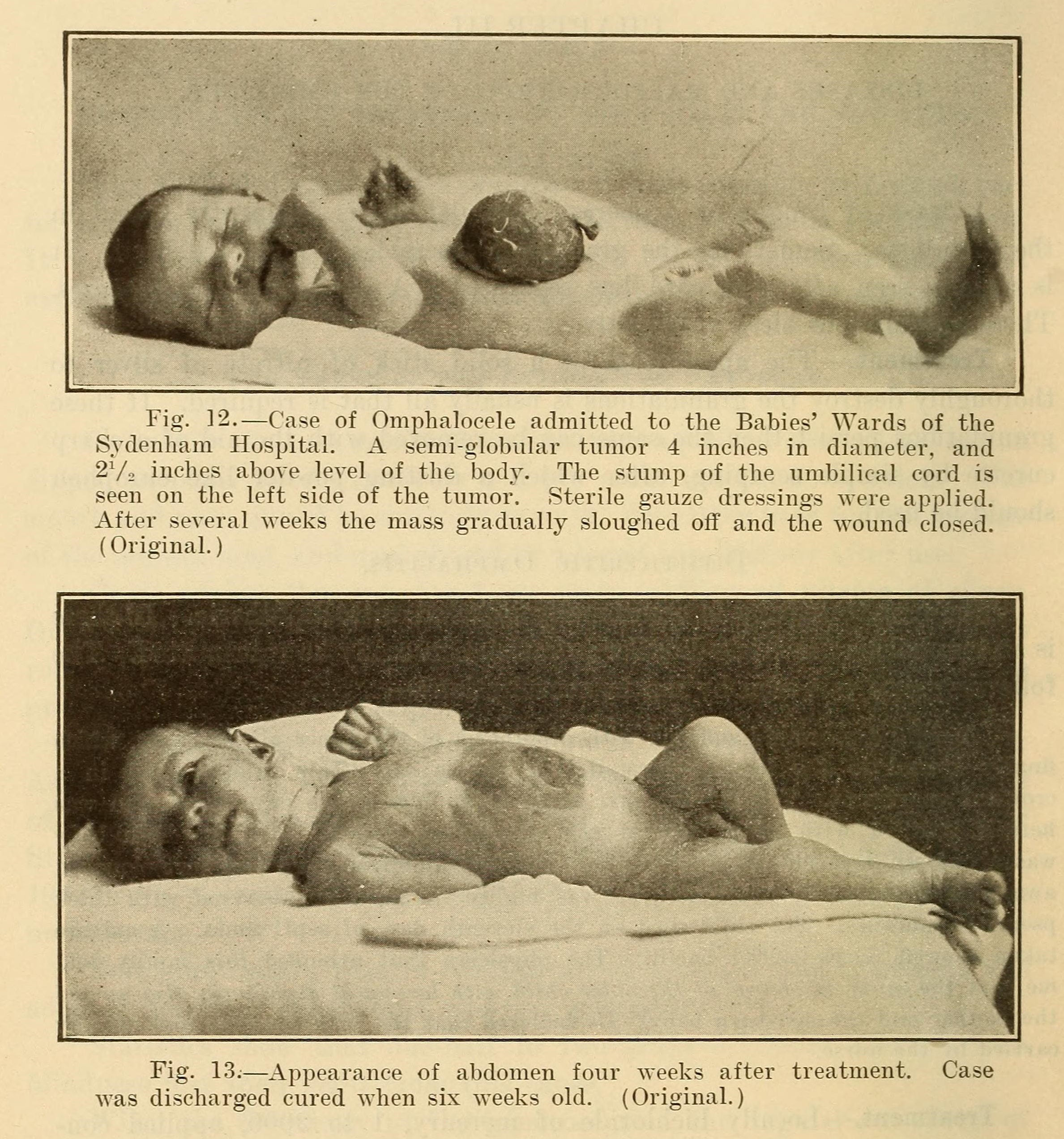 Title: Diseases of infancy and childhood Year: 1914 (1910s) Authors: Fischer, Louis, 1864- (from old catalog) Subjects: Children Publisher: Philadelphia, F. A. Davis company (etc., etc.) Text Appearing Before Image: Fig. )2.—Case of Omphalocele admitted to the Babies Wards of theSydenham Hospital. A semi-globular tumor 4 inches in diameter, and2Vo inches above level of the body. The stump of the umbilical cord isseen on the left side of the tumor. Sterile gauze dressings were applied.After several weeks the mass gradually sloughed off and the wound closed.(Original.) Text Appearing After Image: Fig. 13.—Appearance of abdomen four weeks after treatment. Casewas discharged cured when six weeks old. (Original.) Septic Omphalitis.An infant was seen by me, through the courtesy of Dr. S. Straus, inthis city during the summer of 1902. History, as follows:— It was the first child born; no previous miscarriage; family history excellent;no history of syphilis; labor was easy, and baby was born in natural manner.The mother was in excellent health; had milk in both breasts; normal temperature.Asepsis was thoroughly carried out. The infant had a temperature of 103° F., in therectum, slight gastroenteric complication, greenish, colicky stools; the umbilicuswas inflamed and excoriated; slight evidence of pus. Diagnosis.—Septic omphalitis due, probably, to infection by the nurse with un-clean hands while dressing the umbilicus. Treatment.—Strict asepsis to be followed. The umbilicus to be washed with CONGENITAL OBLITERATION OF THE lULE DUCTS. 37 1 to 2000 bichloride of mercury. Ste